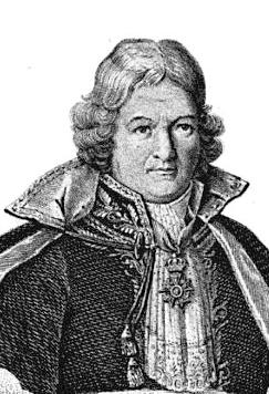 Jean-Louis Emmery.